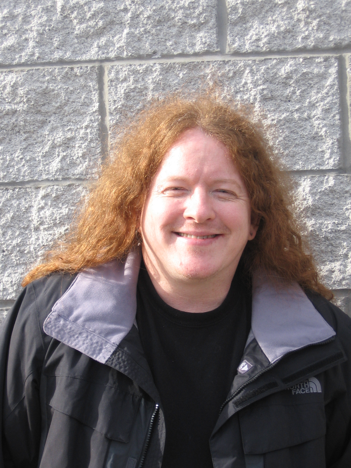 A photo of Dan Farmer, a computer security researcher, taken in Medina, Ohio